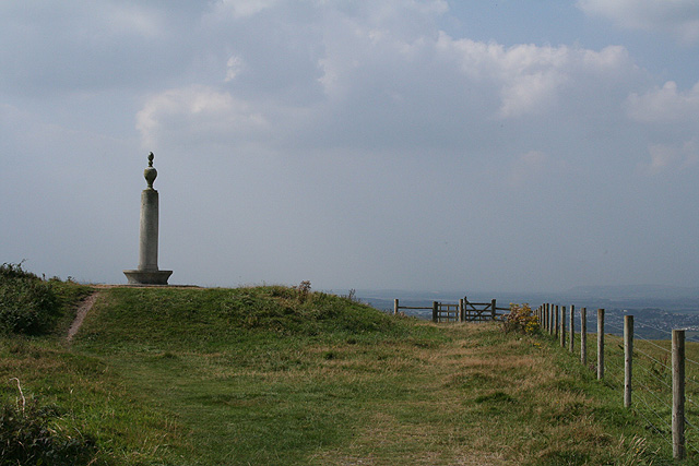 Bishop’s Tawton: Codden Beacon Obelisk erected in 1971. Inscribed ‘To Caroline who lived closely at Cobbaton and loved this hill, the beloved wife of the Right Honorable Jeremy Thorpe MP and mother of Rupert, she died on June 29th 1970 aged 32’. The obelisk was designed by architect Clough Williams Ellis of Portmeiron fame and the monument was dedicated by the Archbishop of Canterbury and the Bishop of Crediton on 4 December 1971